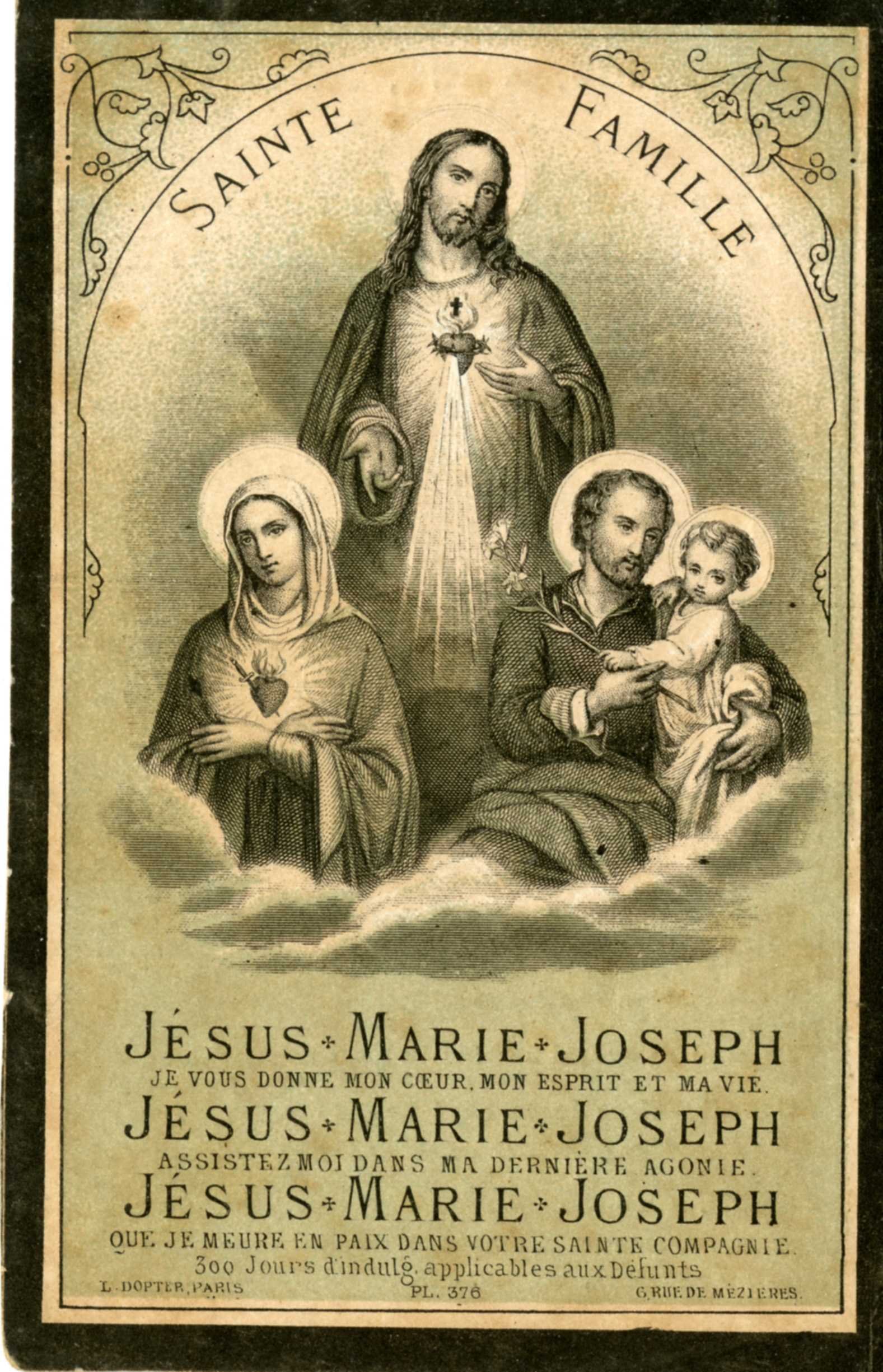 Holy Family holy card. University of Dayton Libraries.